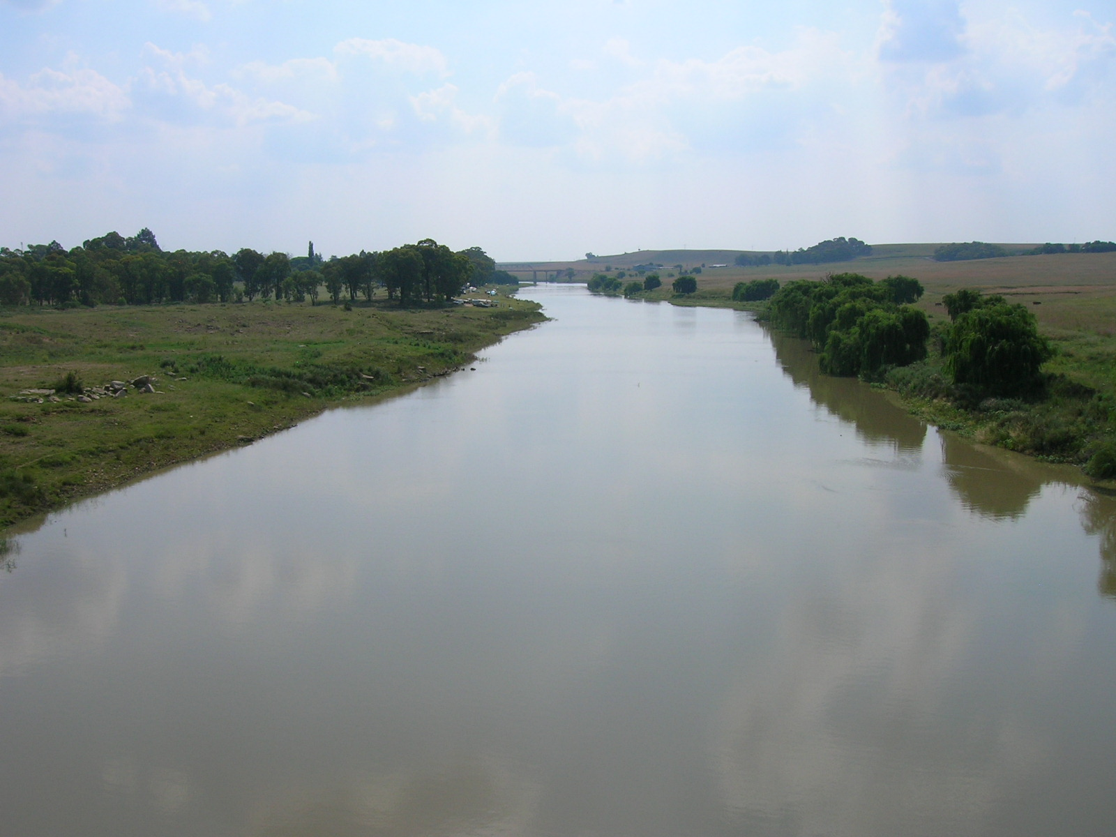 The Vaal River as taken from the N3 freeway bridge over it.